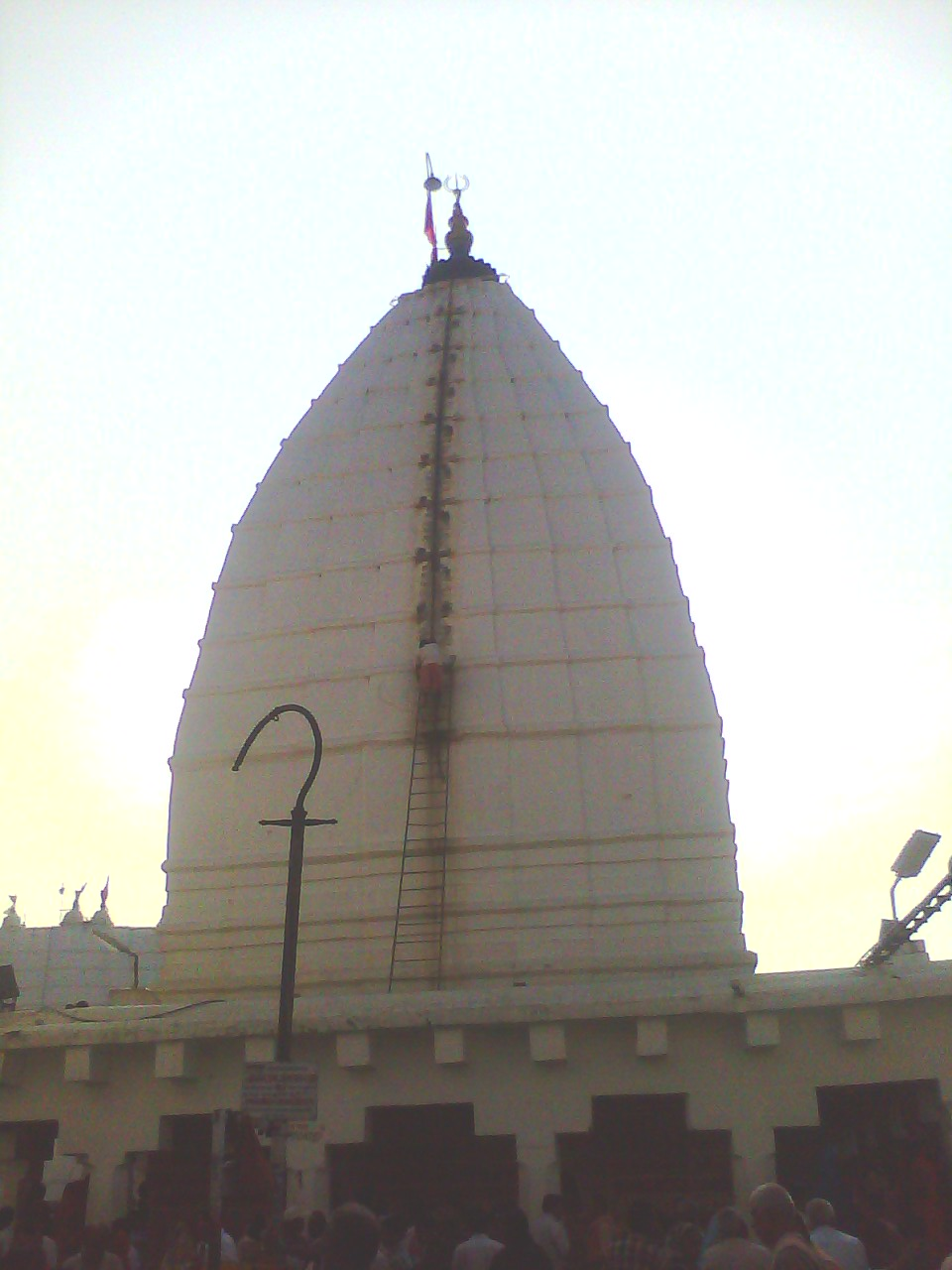 This is photo of Baidyanath ji- commonly known as Baba Dham. This is one of the Twelve Jyotirlinga, situated near Jasidih, Jharkhand, India